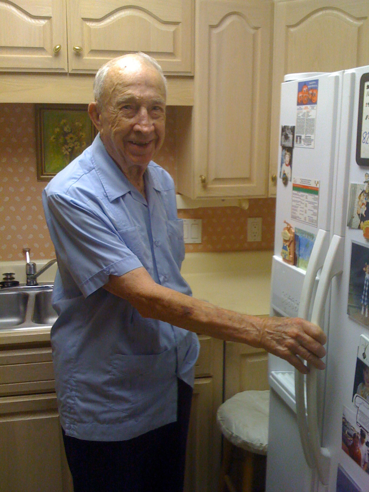 Retired U.S. Army Colonel John E. Olson. Last Surviving officer of the Bataan Death March. At home near Houston, Texas.